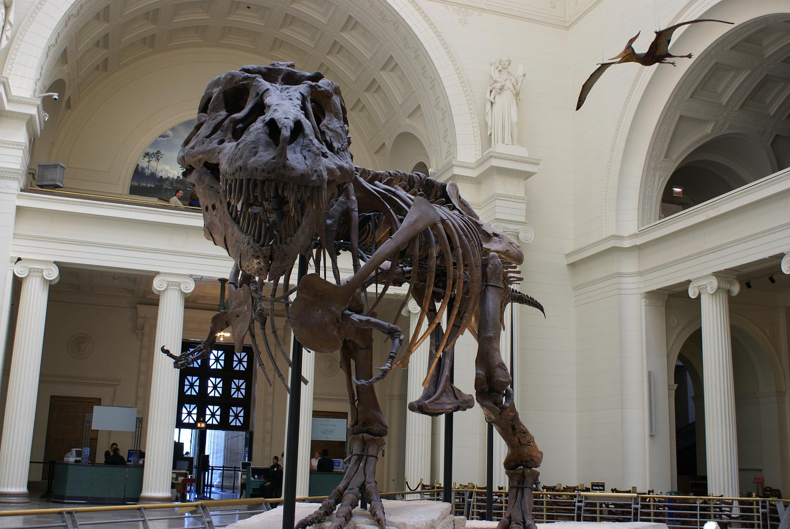 Tyrannosaurus rex fossil at Chicago Field Museum, USA.